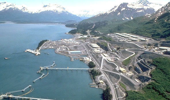 The Valdez Marine Terminal of the Trans-Alaska Pipeline System is seen from the air, looking east. At left is Port Valdez.